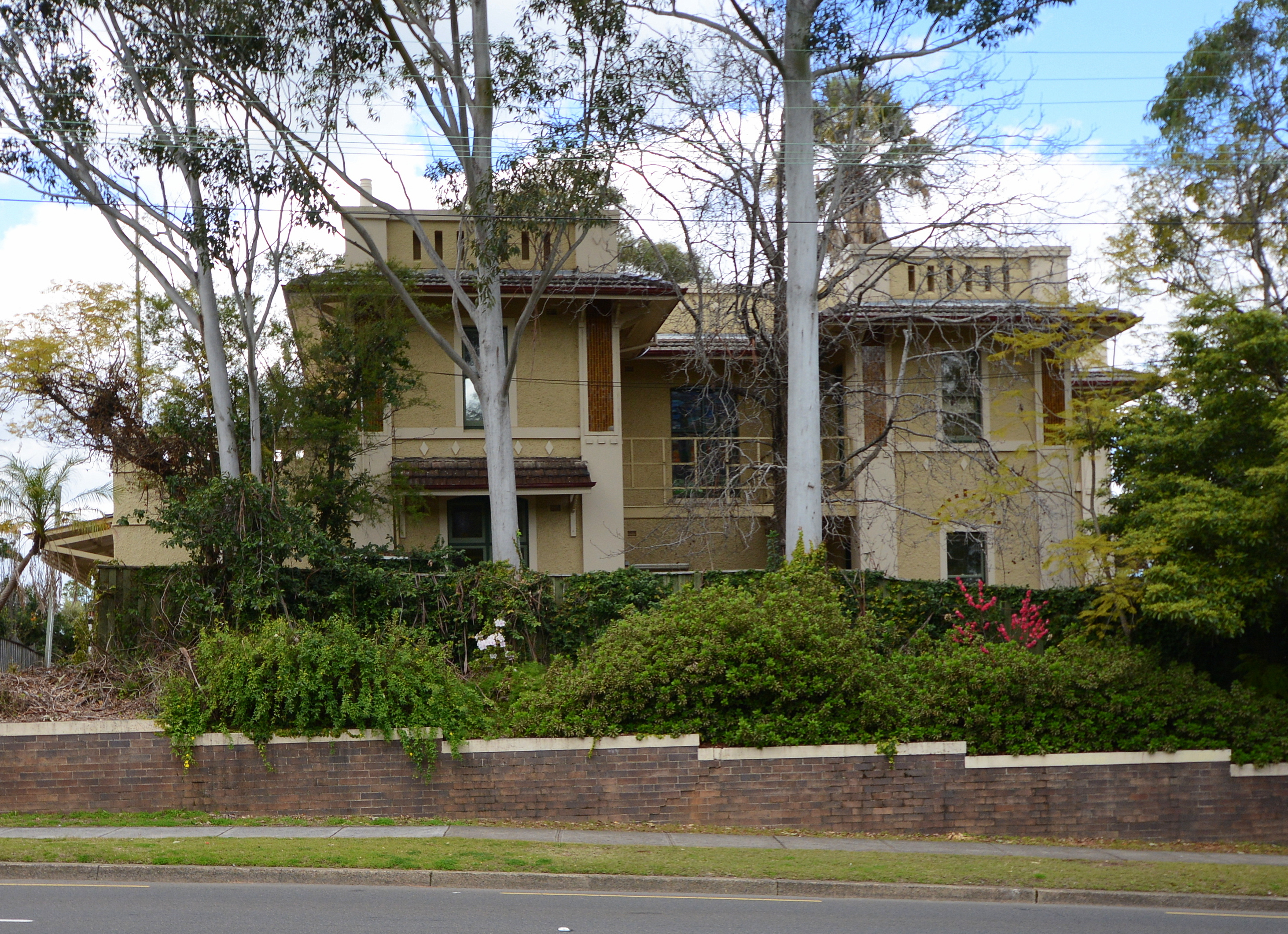 Arden Anglican School, Beecroft, Sydney (image has been modified by User:Sardaka, by cropping, 2020-4-8)